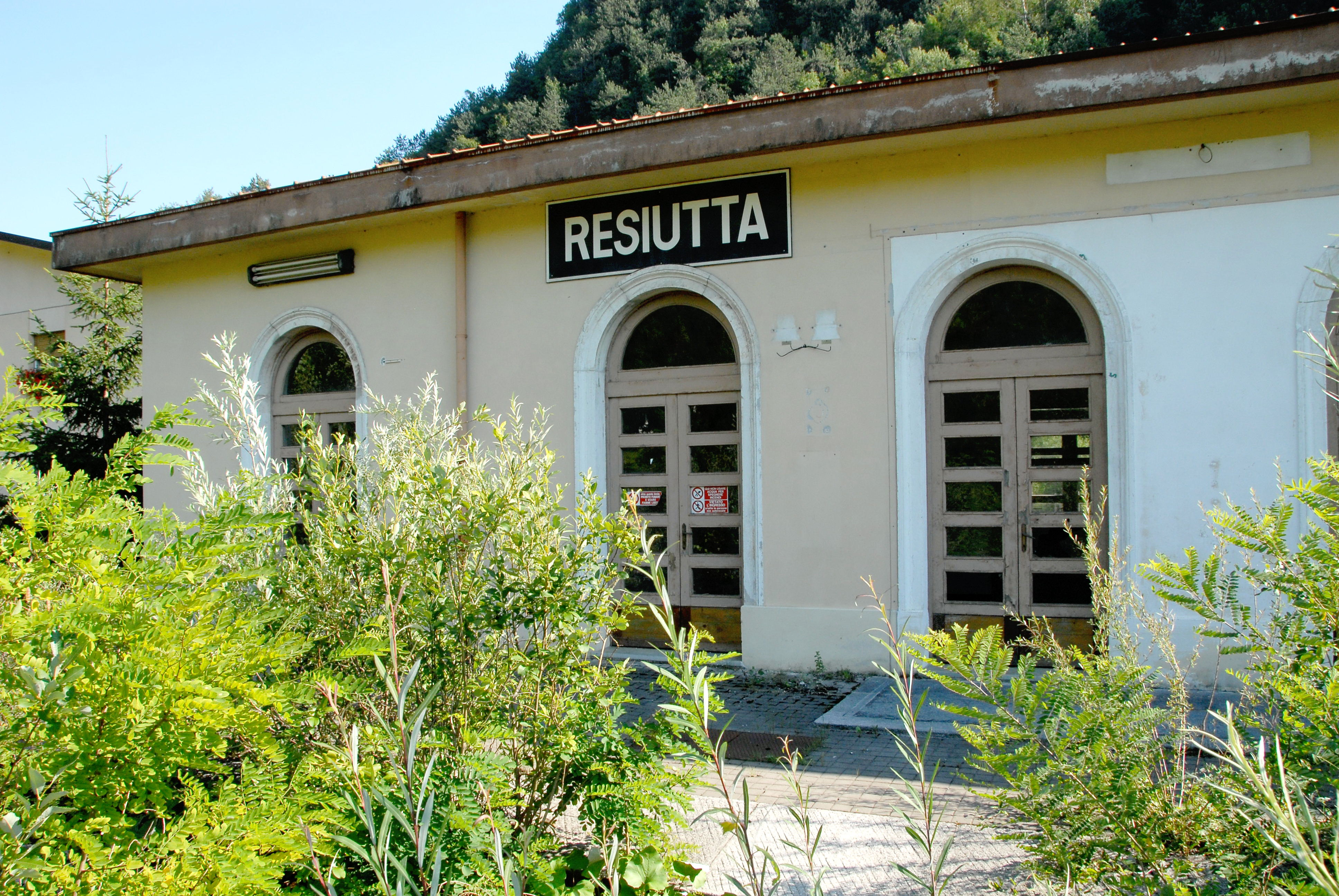 Defunct station of the old railway line “Pontebbana” at Resiutta in Canal del Ferro, Friuli-Venezia Giulia, Italy